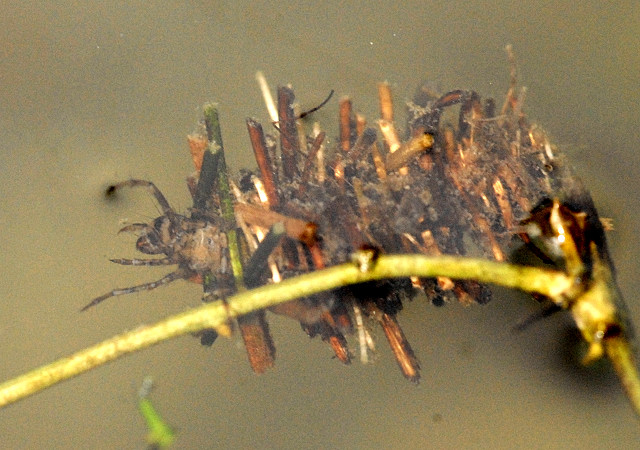 Picture taken in Commanster, Belgian High Ardennes . Species: Limnephilus flavicornis larva